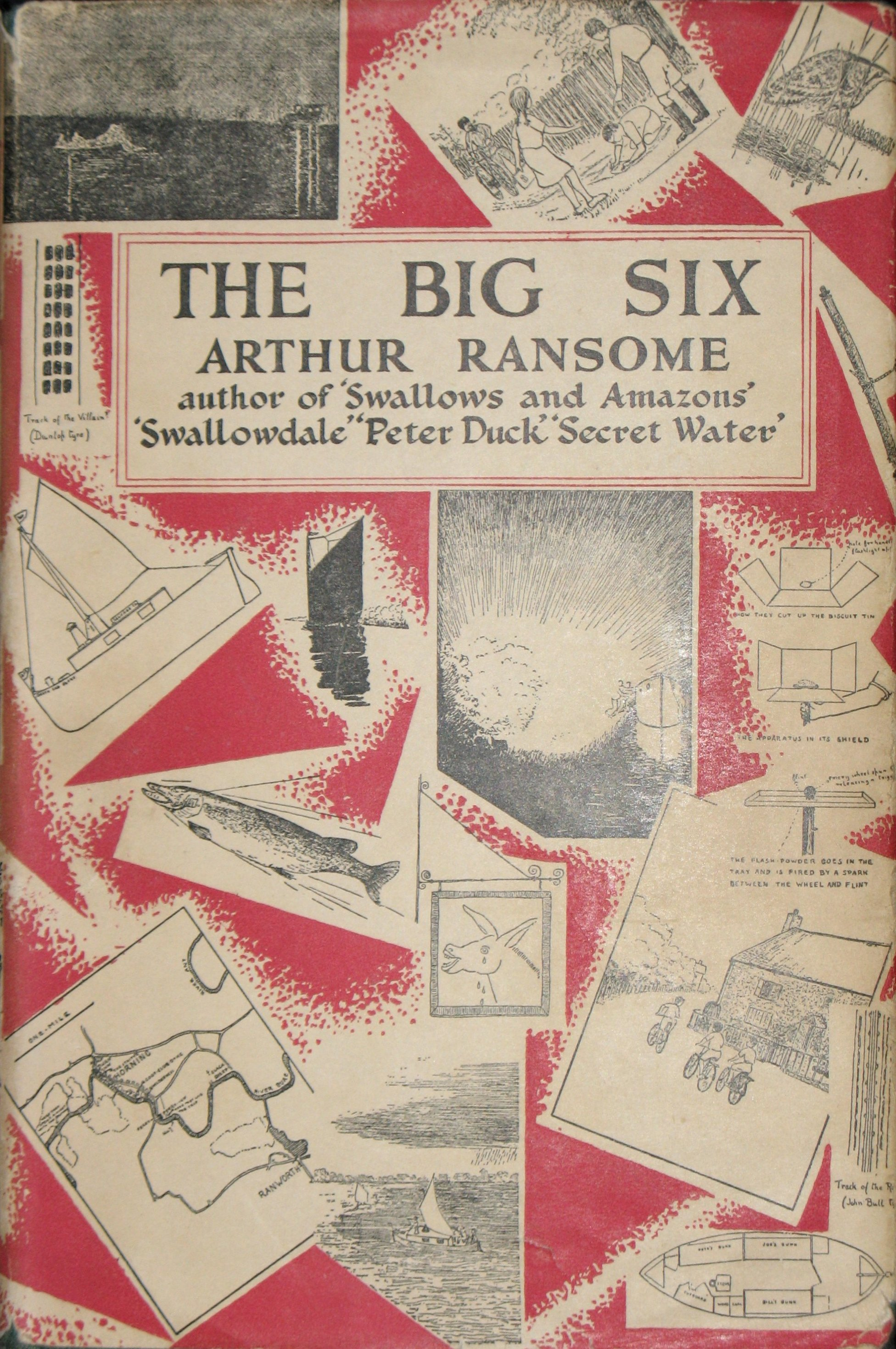 photo of Jonathan Cape edition of Arthur Ransome's 1940 novel, The Big Six